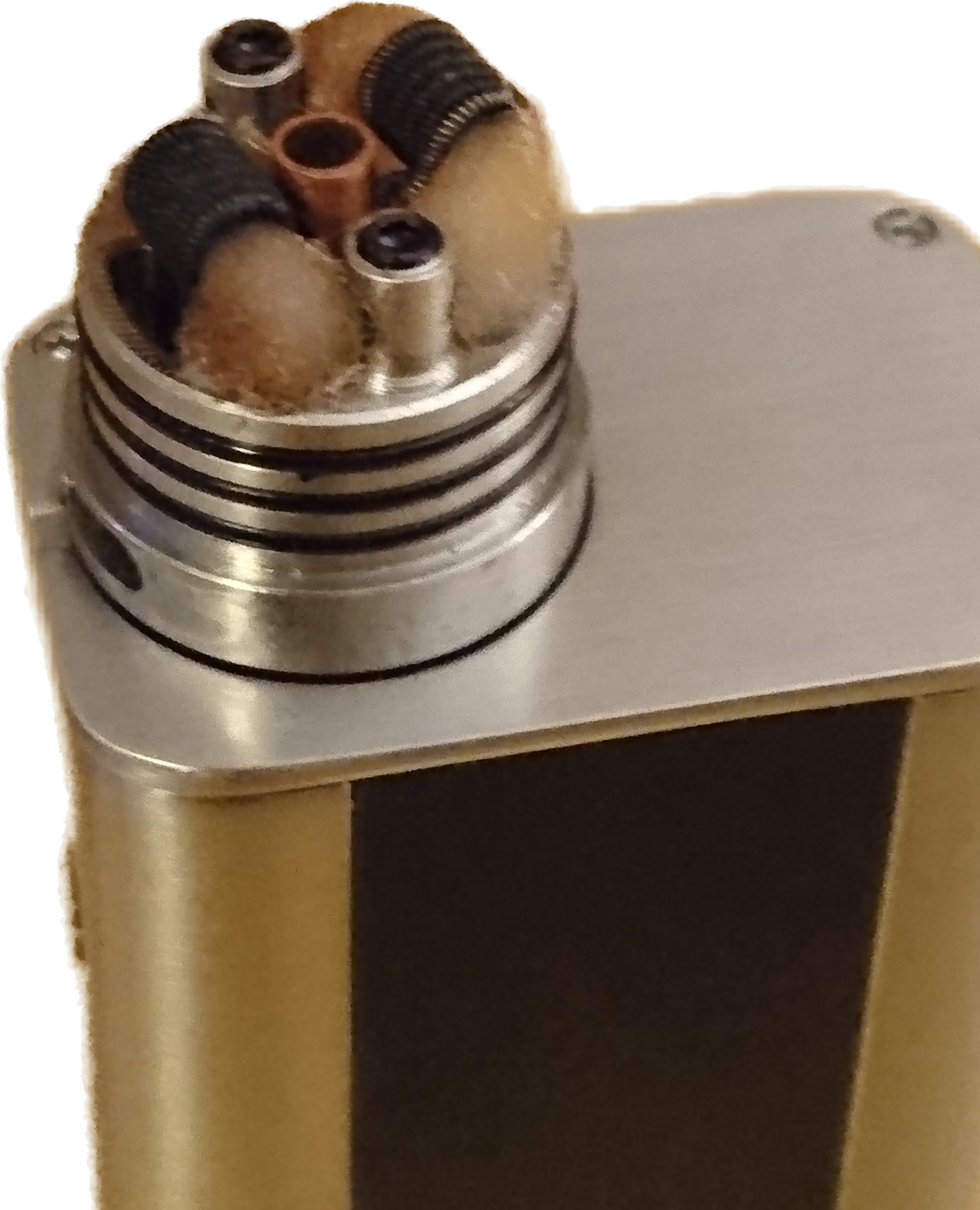 This is a close-up view of an RDA deck with the wicks and coils installed